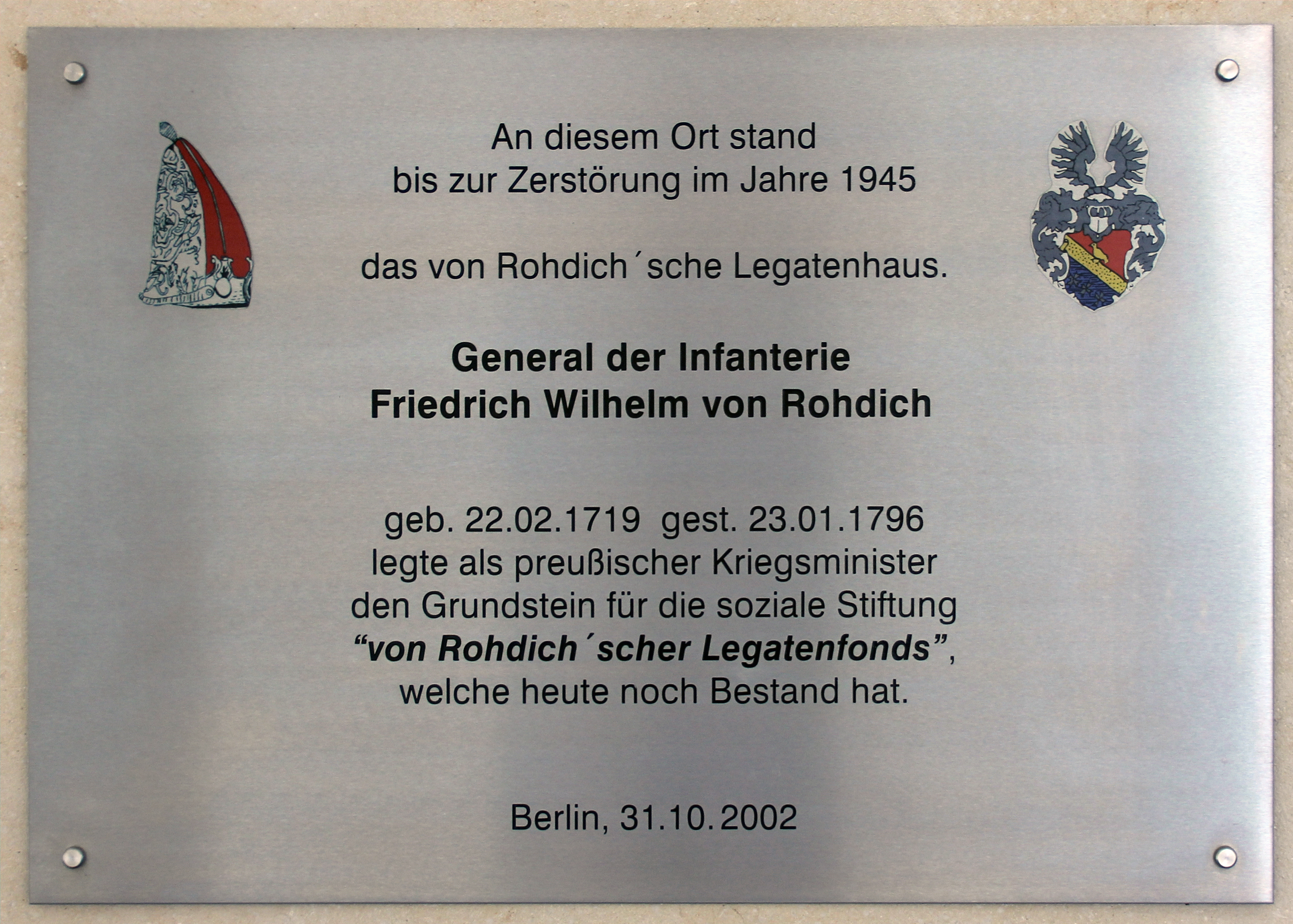 Memorial plaque, Friedrich Wilhelm von Rohdich, Pariser Platz 3, Berlin-Mitte, Deutschland